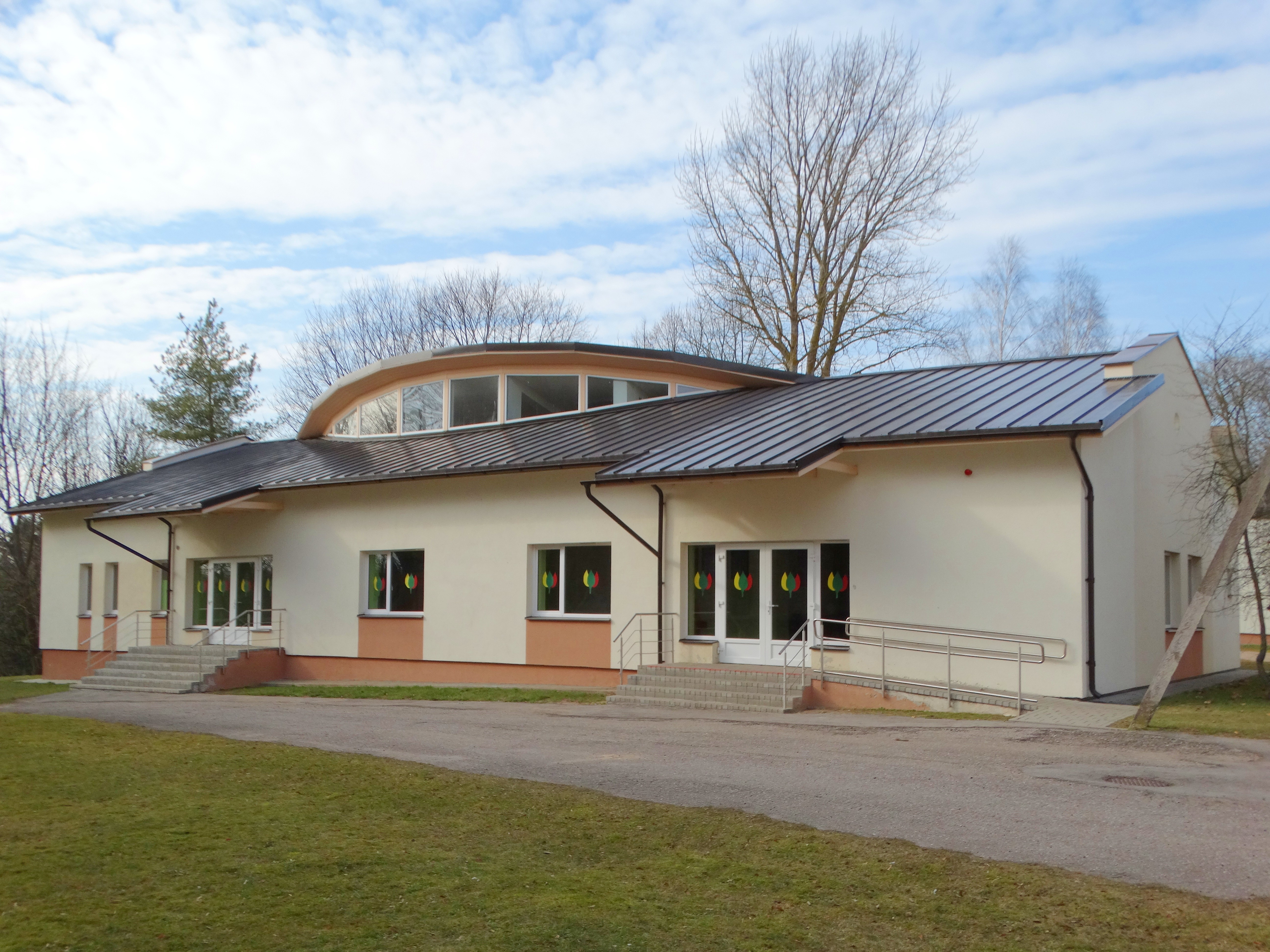 Gymnasium in Josvainiai, Kėdainiai district, Lithuania